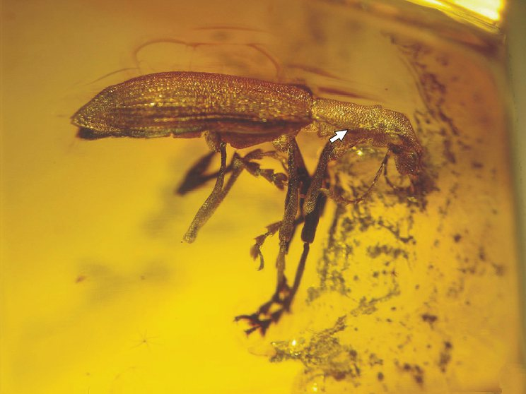 Arostropsis groehni gen. et sp.n., body, lateral view. Body length: 6.4 mm. The arrow indicates the lateral ridge.